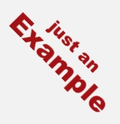 Please use a more precise name for your image.